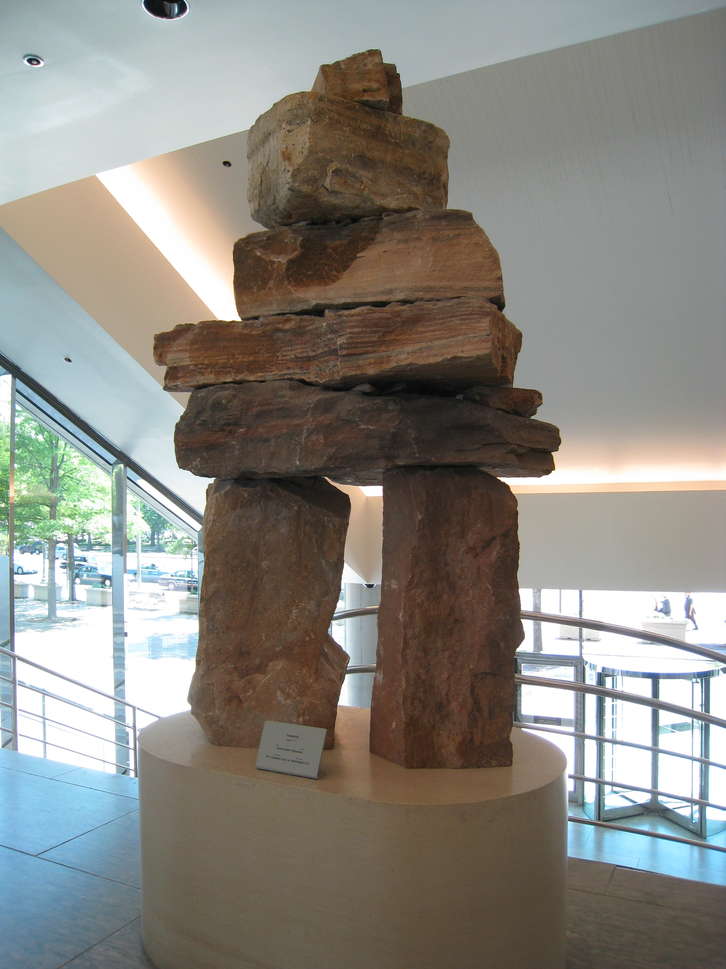 Inukshuk sculpture by David Ruben Piqtoukun (1950–) DescriptionInuit artistDate of birth 1950 Location of birth Paulatuk, Northwest Territories, Canada Work location Paulatuk, TorontoAuthority control : Q5239268 VIAF: 261926113 ISNI: 0000 0000 7106 1143 ULAN: 500127337 LCCN: n93094743 GND: 174258100 WorldCat creator QS:P170,Q5239268 in the lobby, Canadian Embassy, Washington DC